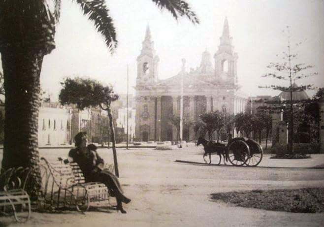 Floriana, Malta. A lady dressed in '20s costume sits at the end of the garden known as Il-Biskuttin, with the imposing facade of St Publius Church in the background.